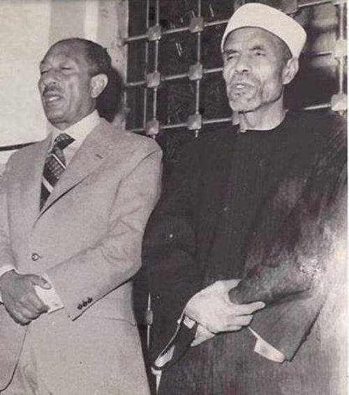 الشيخ الشعراوي مع الرئيس السادات عام 1978